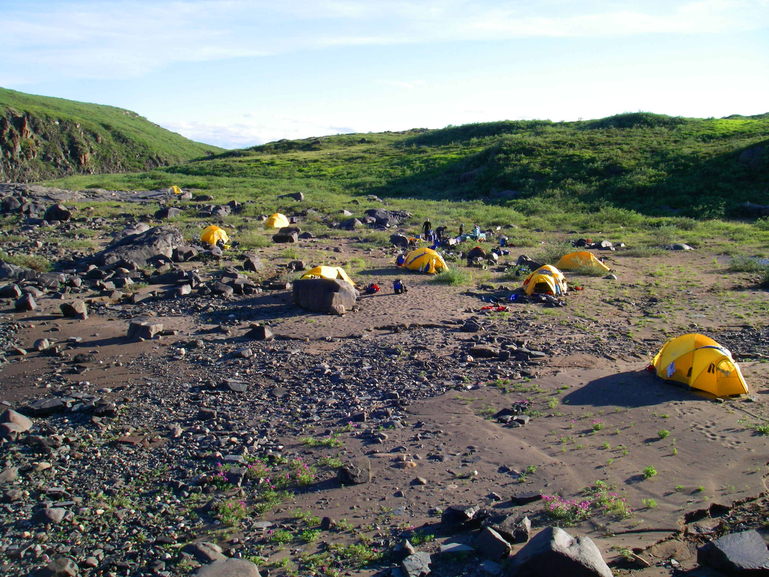 Canoers' campsite at portage of Blood Falls rapids, Nunavut, Canada